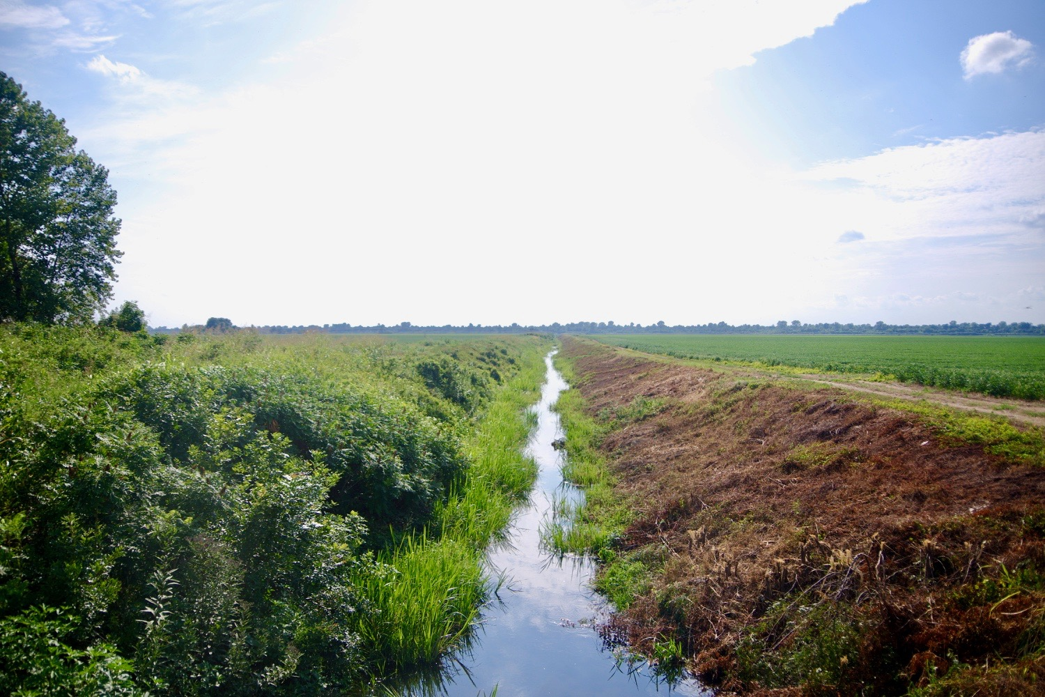 Ditch No. 70, a drainage ditch near Bragg City in Pemiscot County, Missouri, United States.